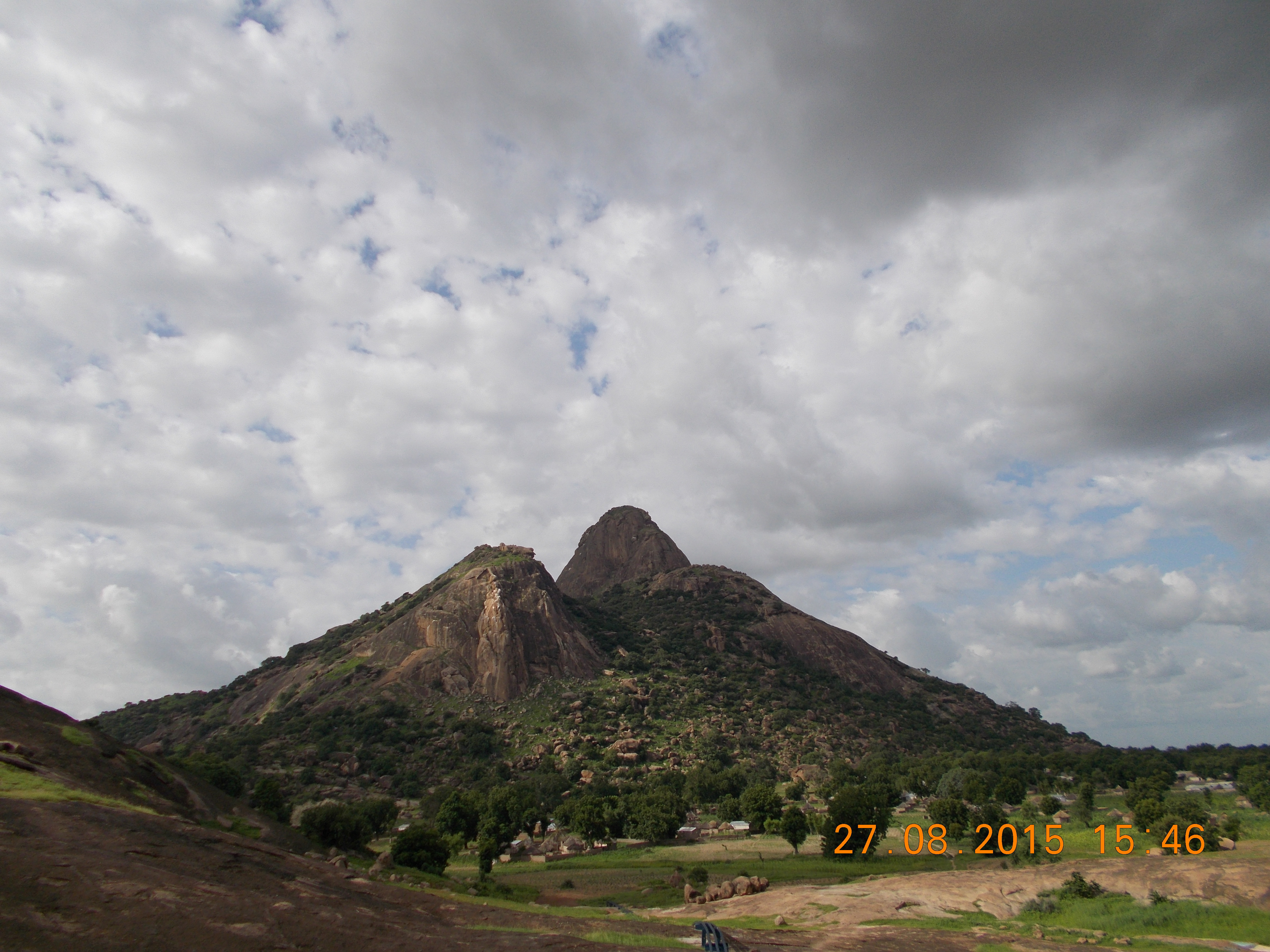 This is an image from Cameroon